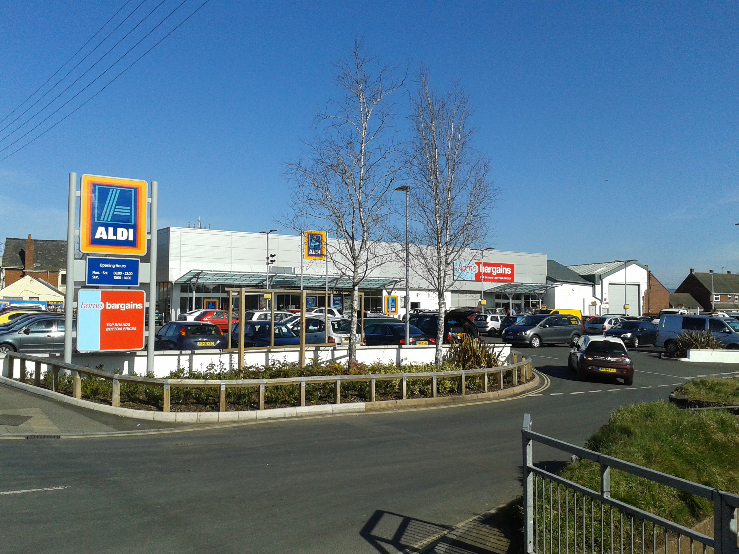 These two shops are on the site of the former tannery owned by the Selwood family. The tannery suffered from a serious fire in 1958.